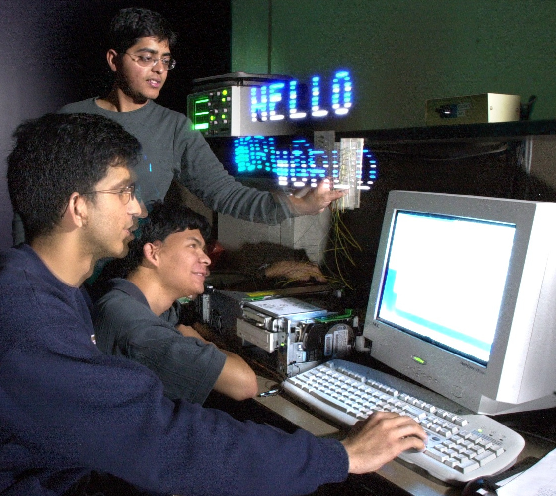 "Hello World" program implemented as LED-based drive circuit on breadboard, together with device driver in GNU Linux